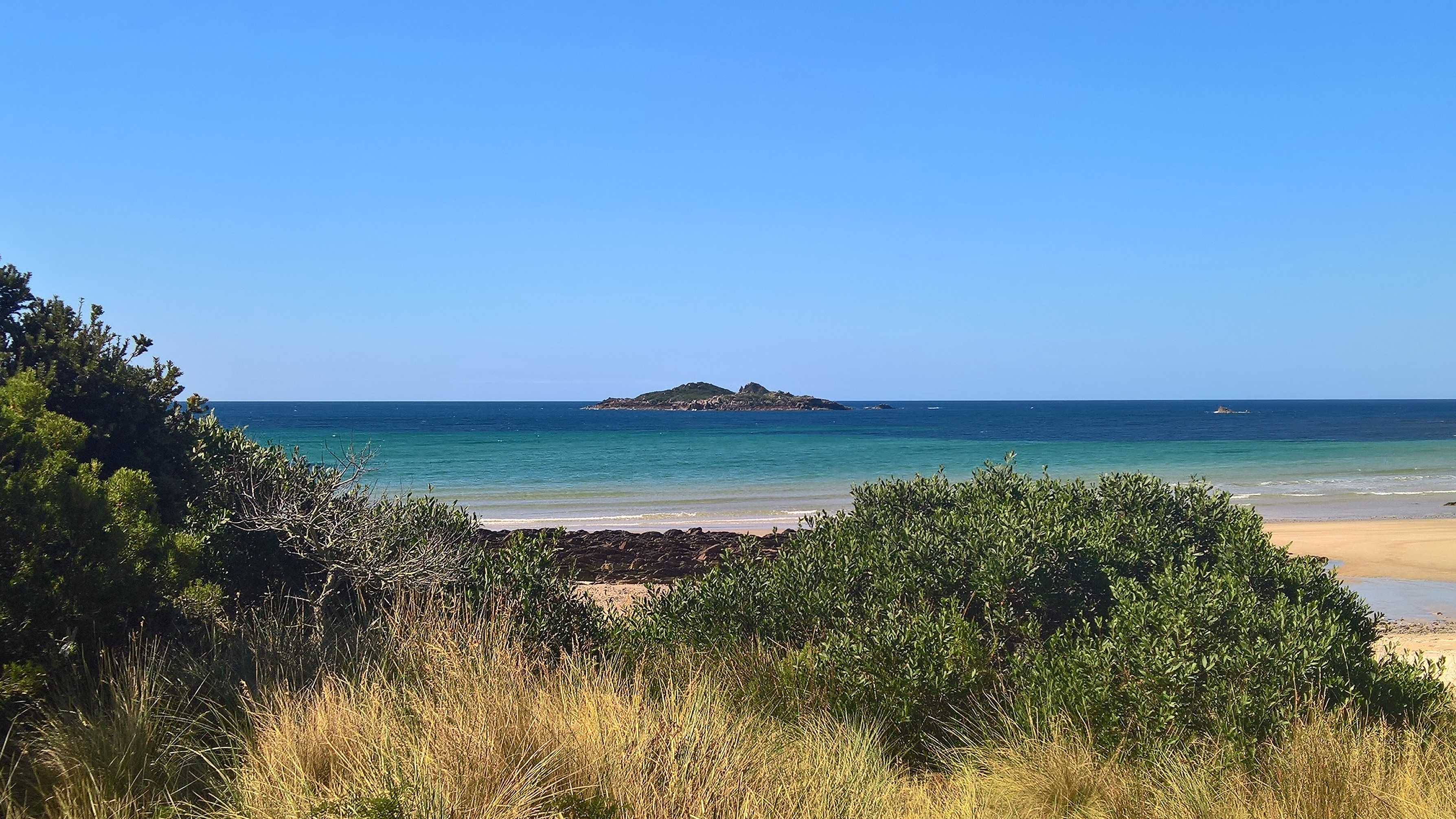 Sisters Island taken from near Rocky Cape (cropped from original image)